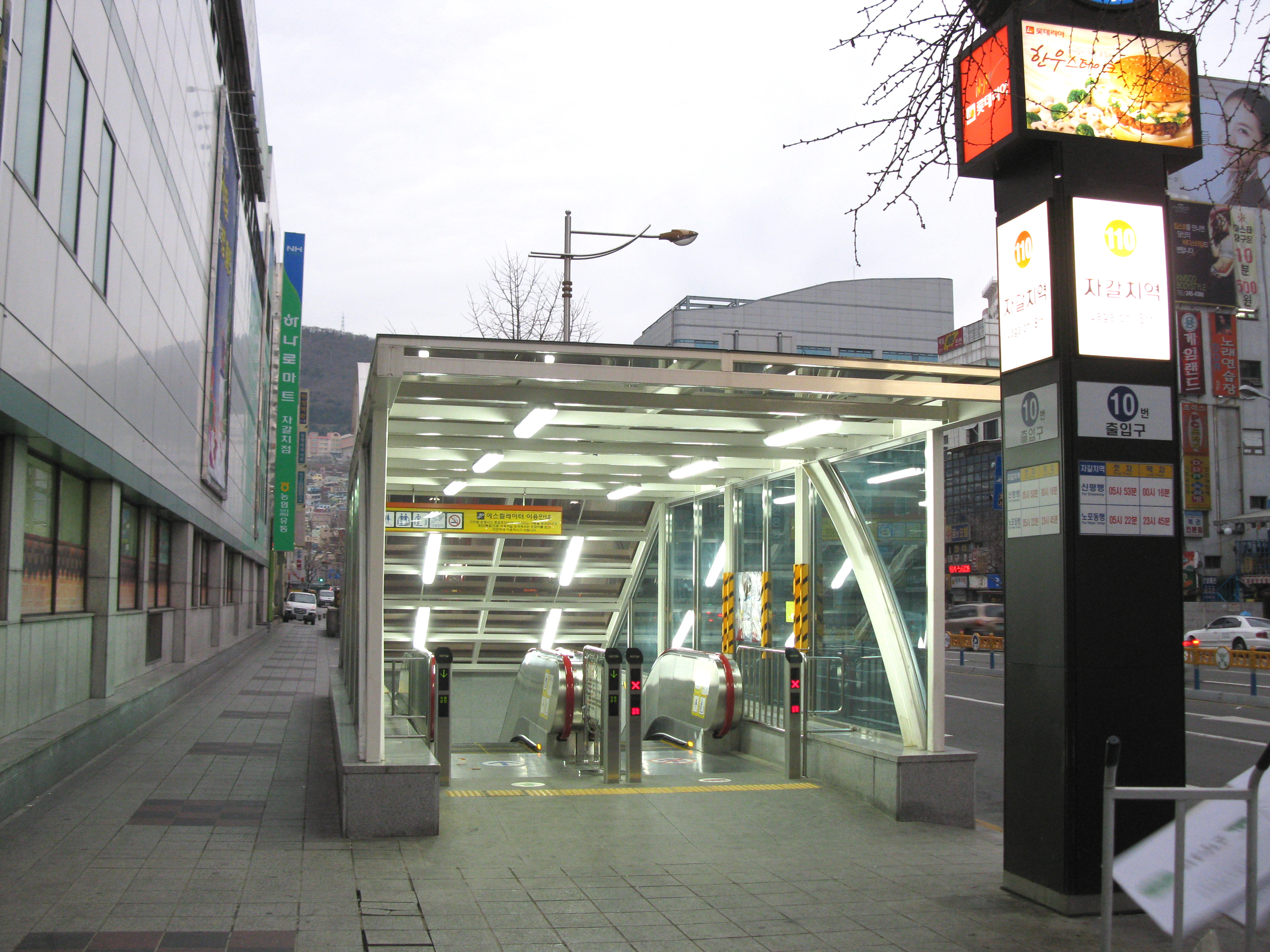 Jagalchi Station no.10 entrance (Busan Subway Line 1)